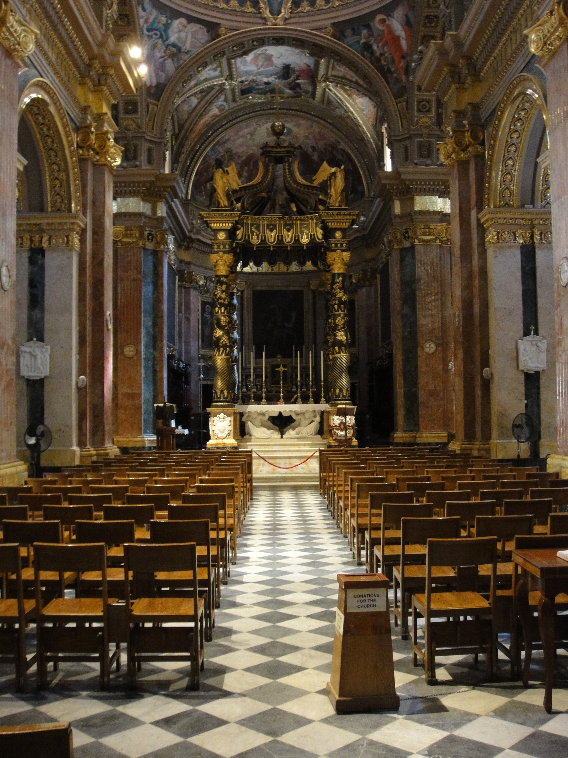 The interior of the magnificent baroque Basilica of St George in Victoria Gozo Malta.